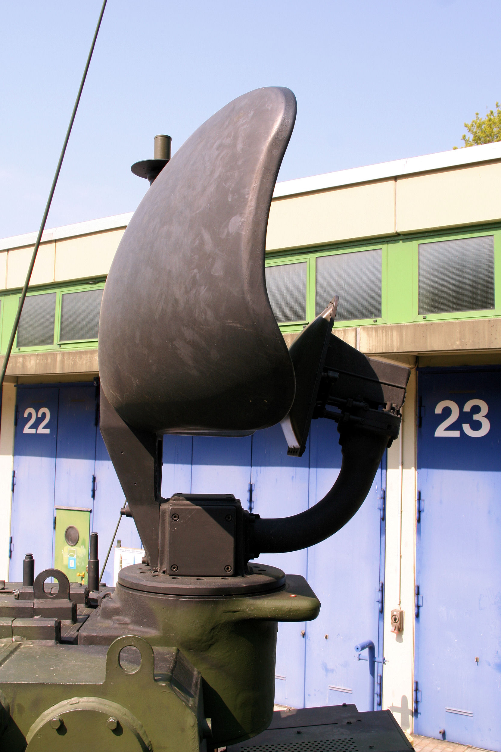 Gepard 1A2 Suchradar Gepard 1A2 Search radar